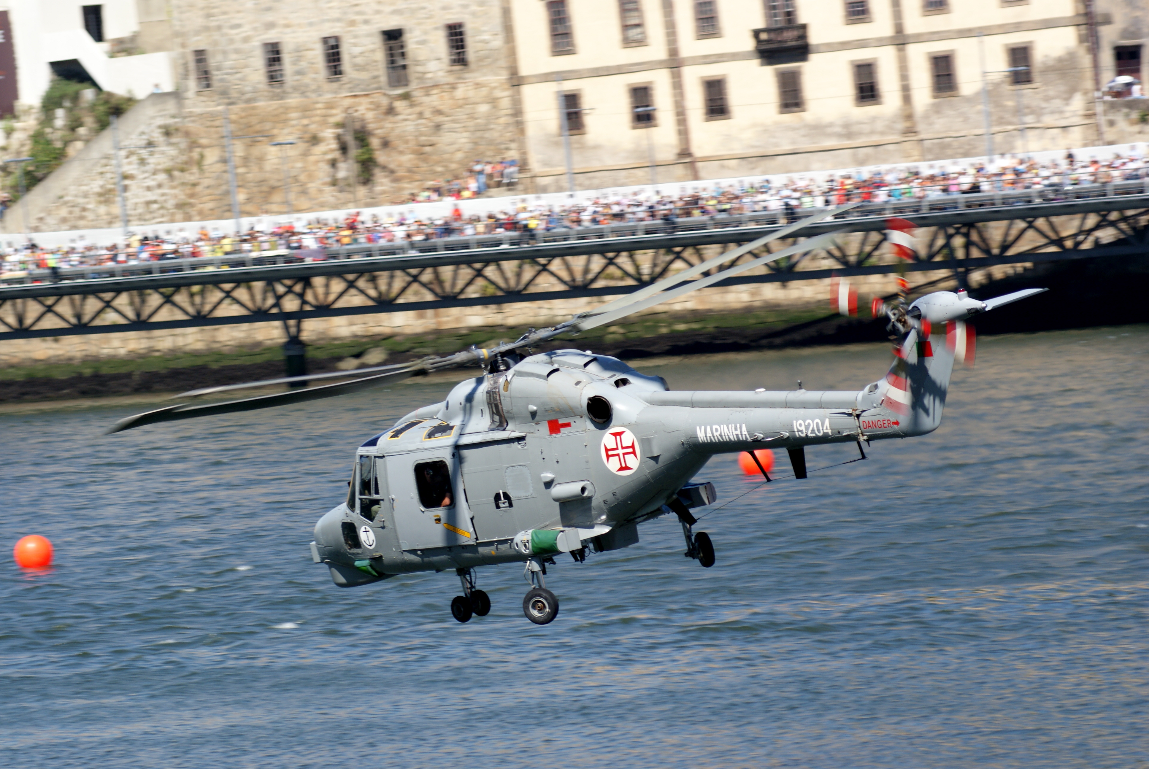 Westland Lynx Mk.95 of Portuguese Navy at Porto Red Bull Air Race 2008.